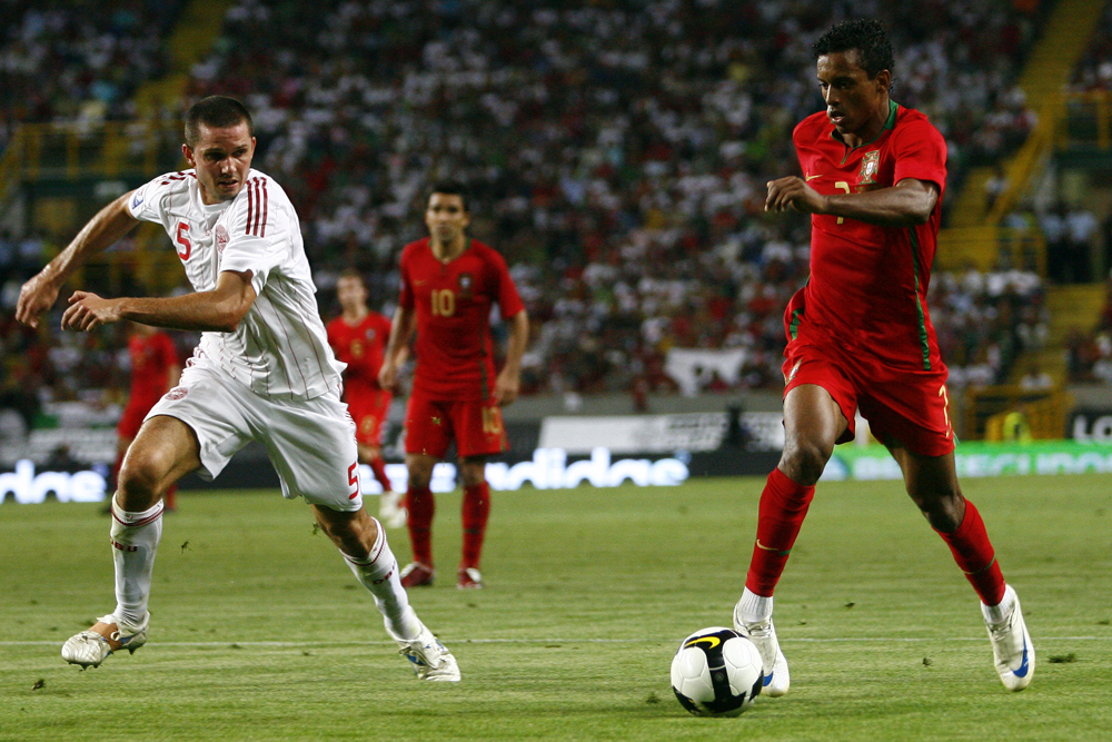 Leon Andreasen (5), Deco (10), Nani (7); Portugal 2-3 Denmark, Lisbon September 10 2008